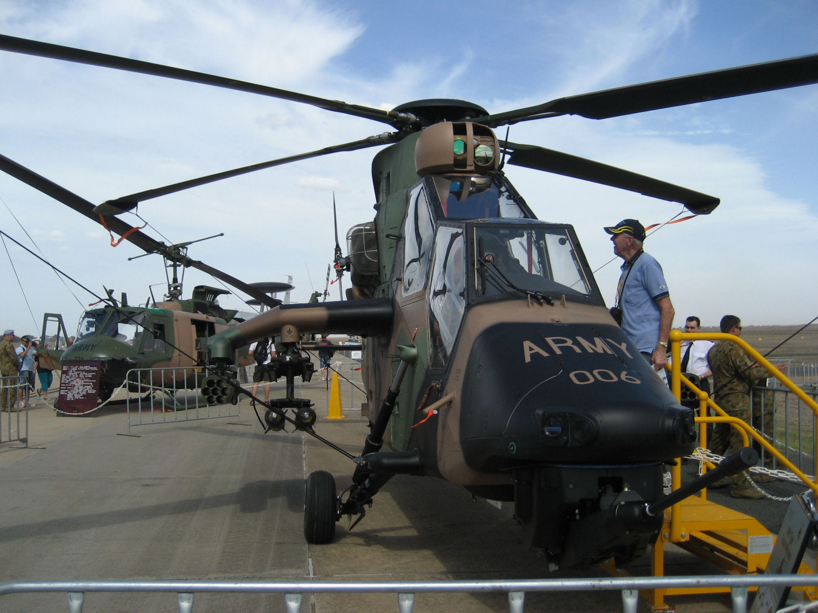 An Australian Army Eurocopter Tiger attack helicopter